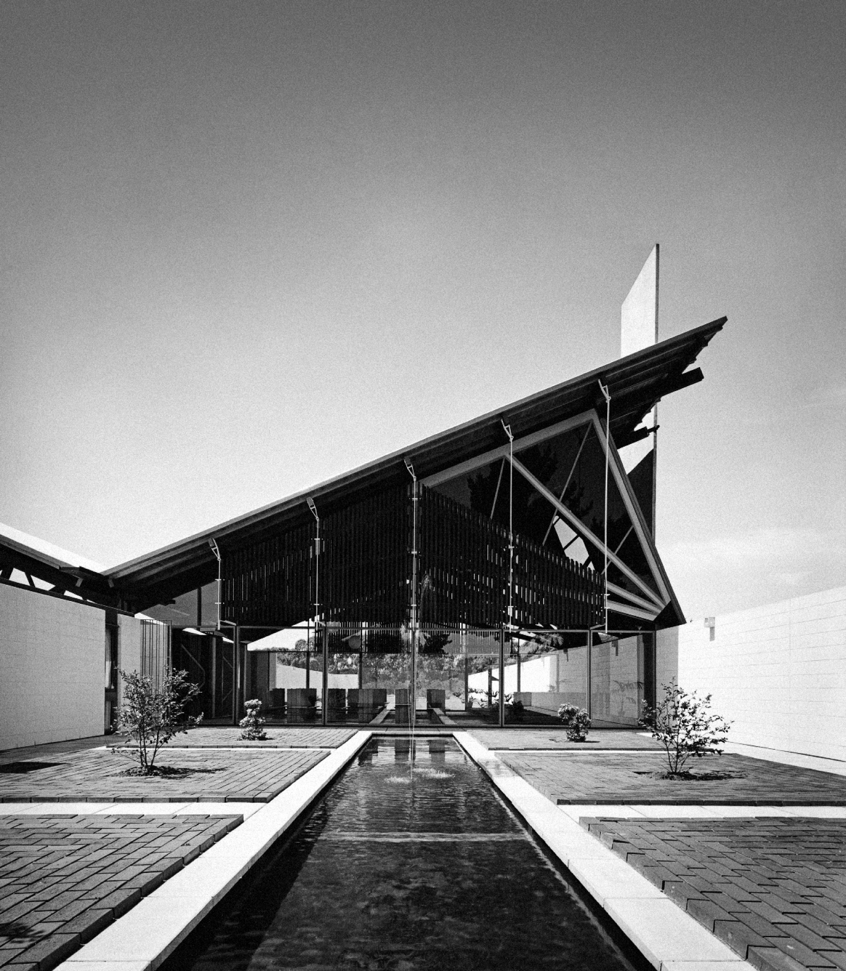 Harewood Memorial Gardens and Crematorium in Christchurch, New Zealand, designed by Warren and Mahoney in 1963.